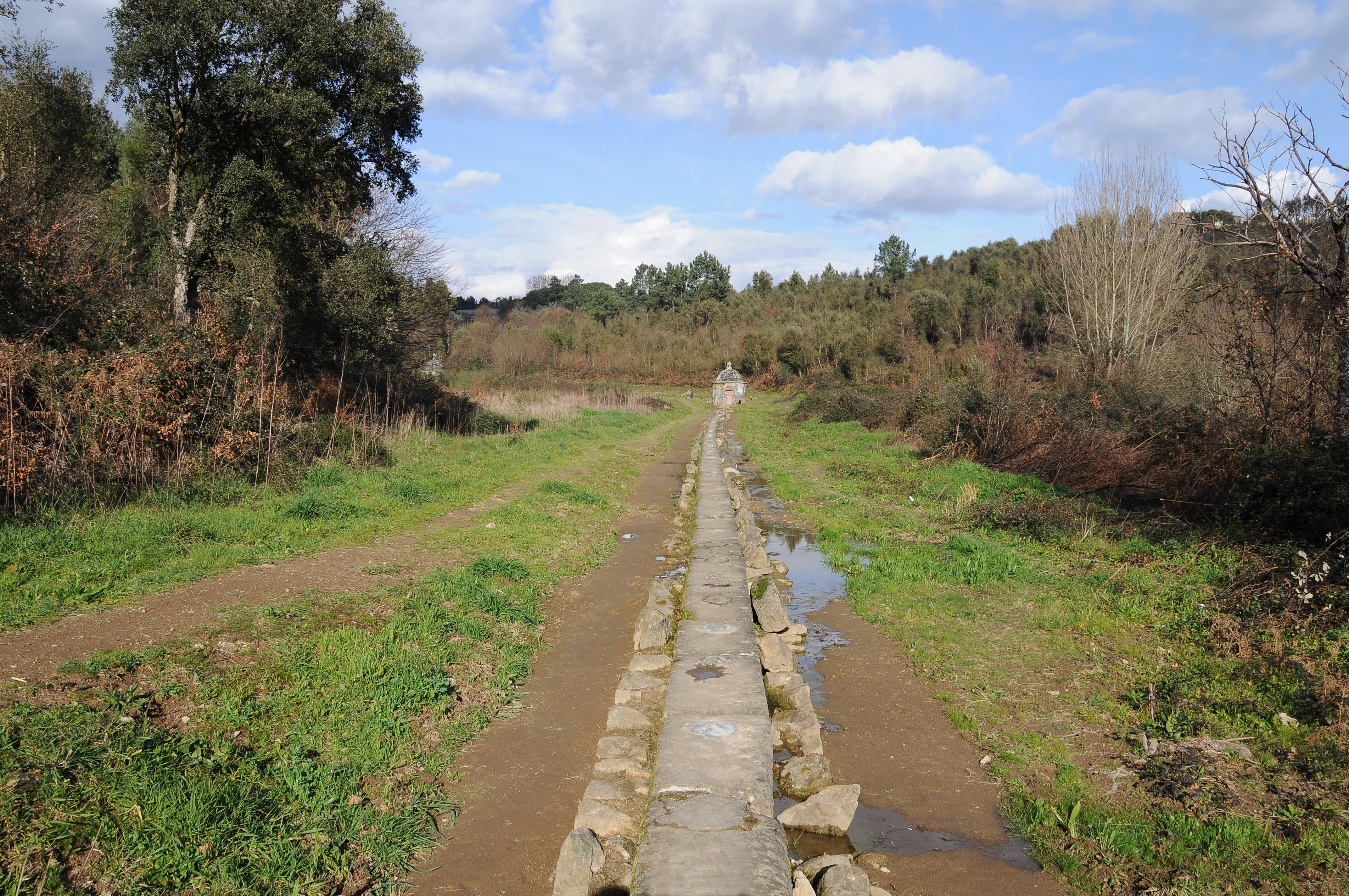 Sete Fontes, Braga, Portugal.